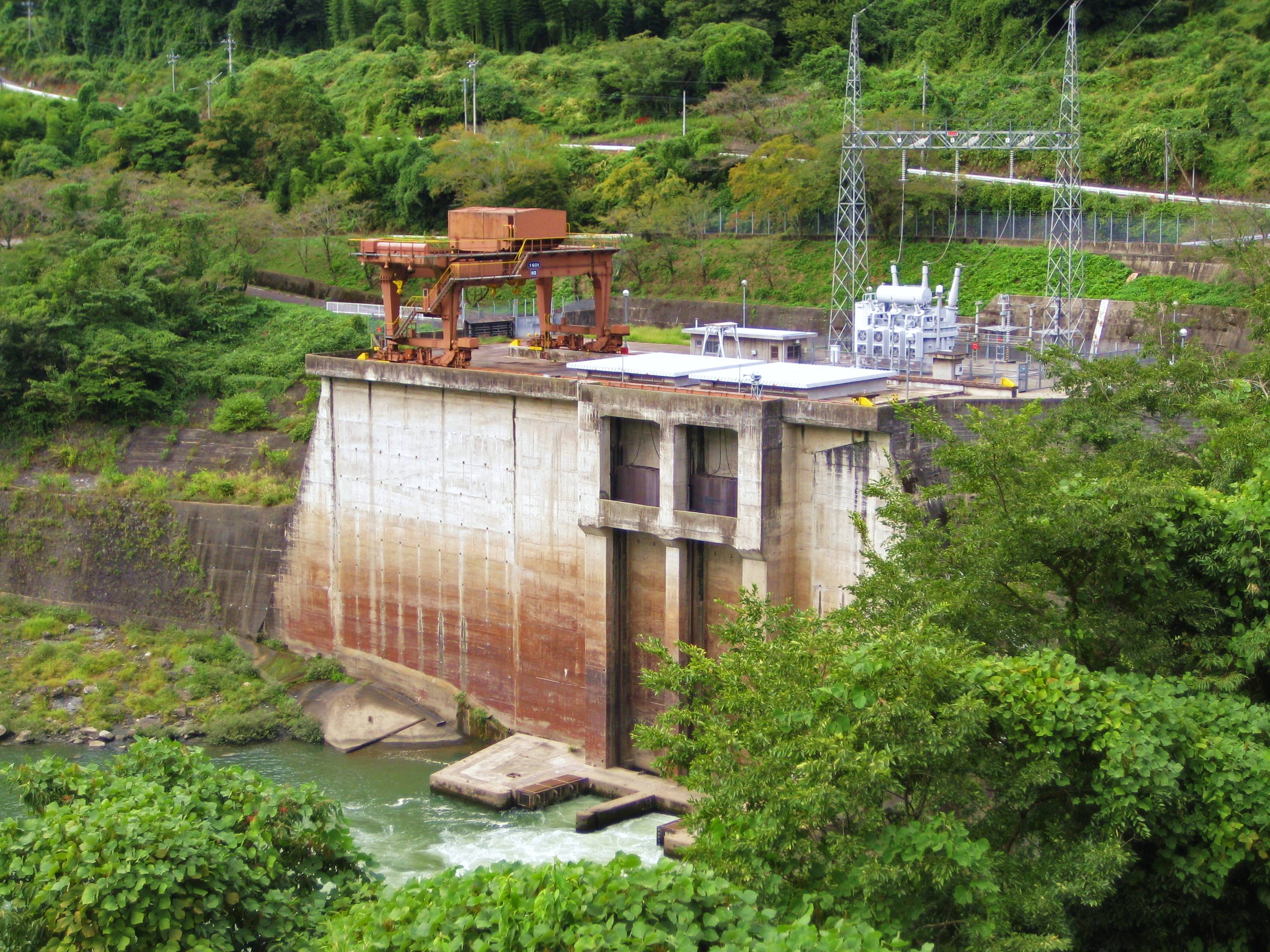 Shinmaruyama power station.